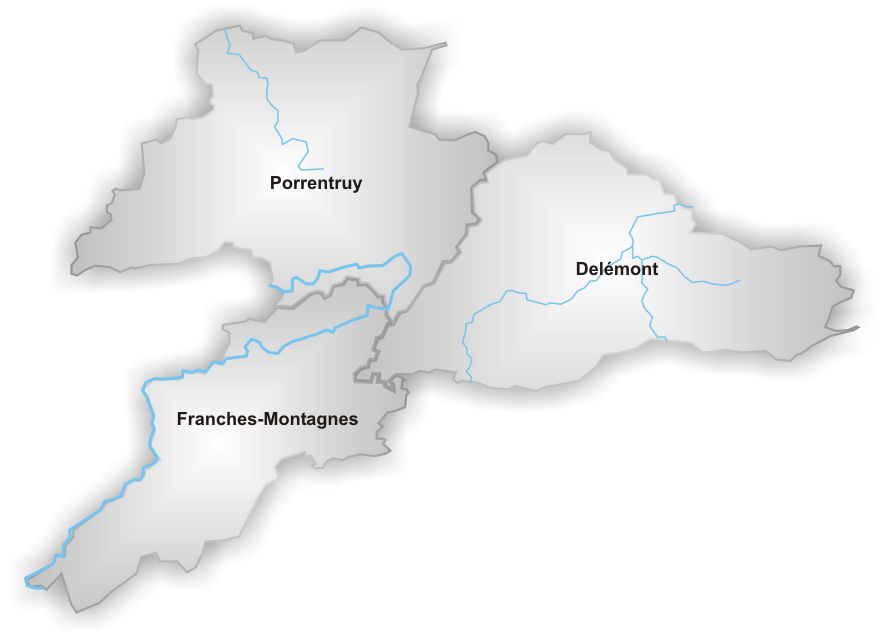 Map of districts in Canton Jura drawn by Tschubby under GFDL